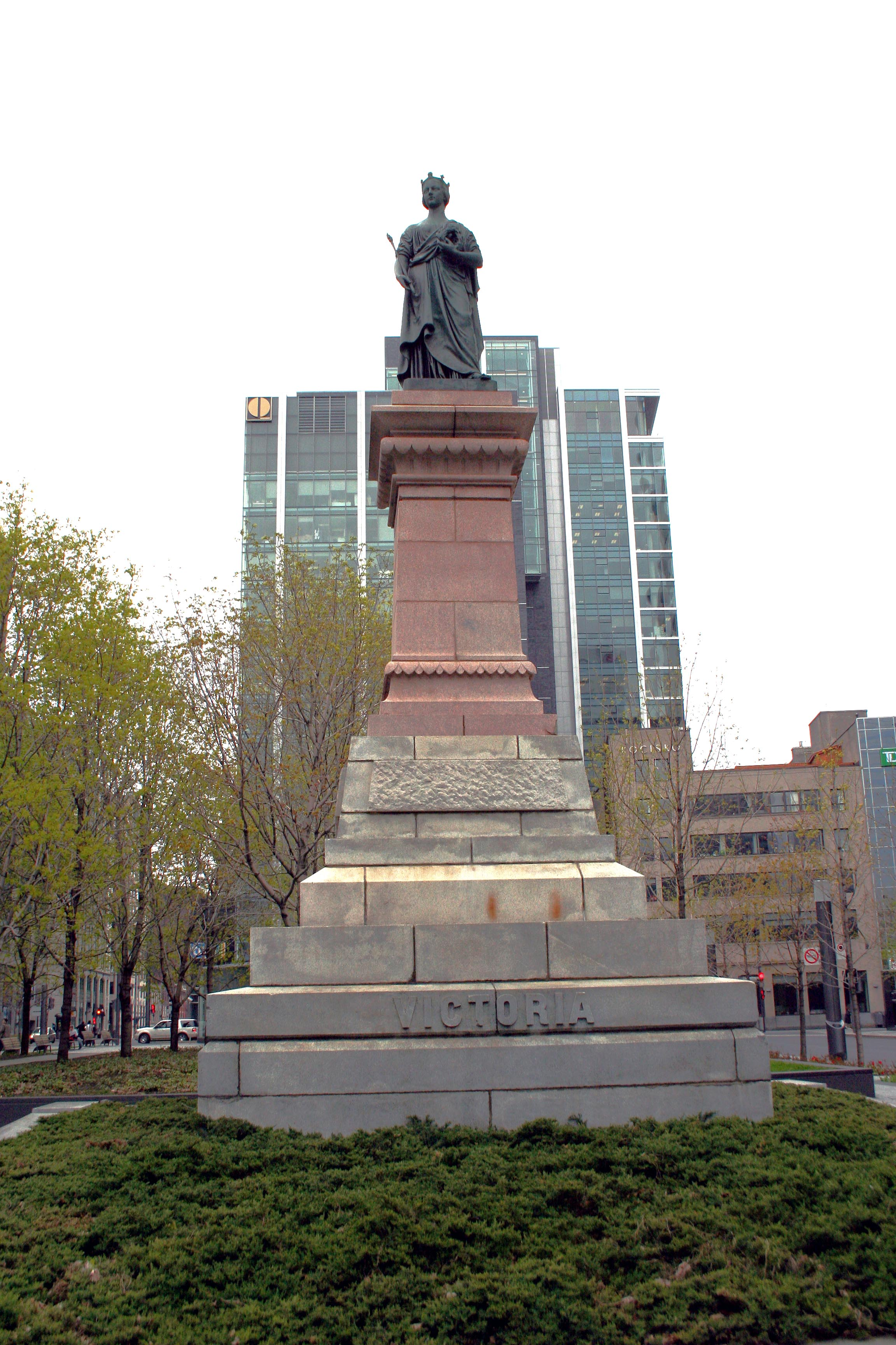 Statue of Queen Victoria at Square-Victoria, Montreal, QC